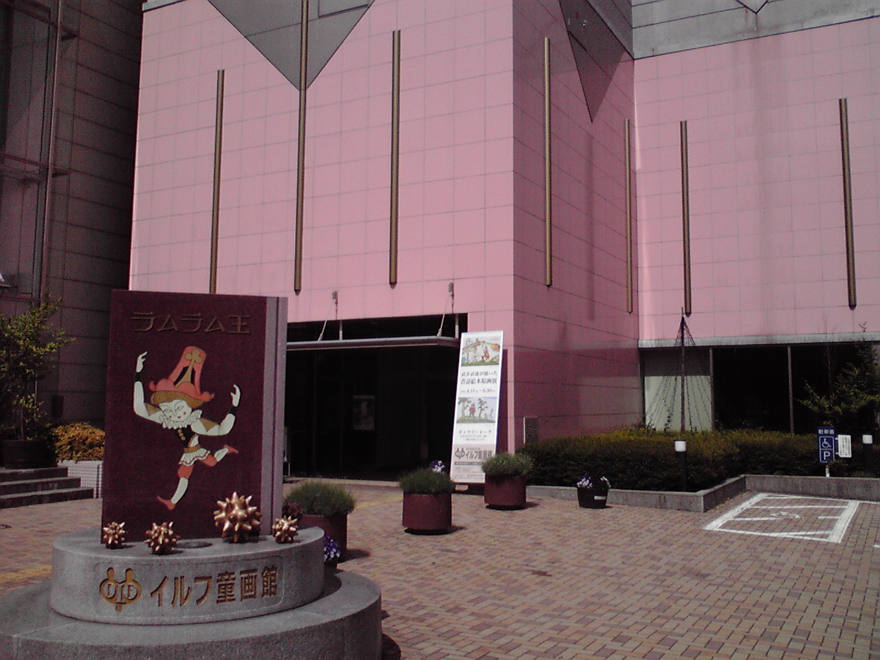 This is the art museum about "Doga" or "Picture for Kids painted by adults".This word was created Japanese artist Takeo Takei. This museum has a lot of his works and so on.